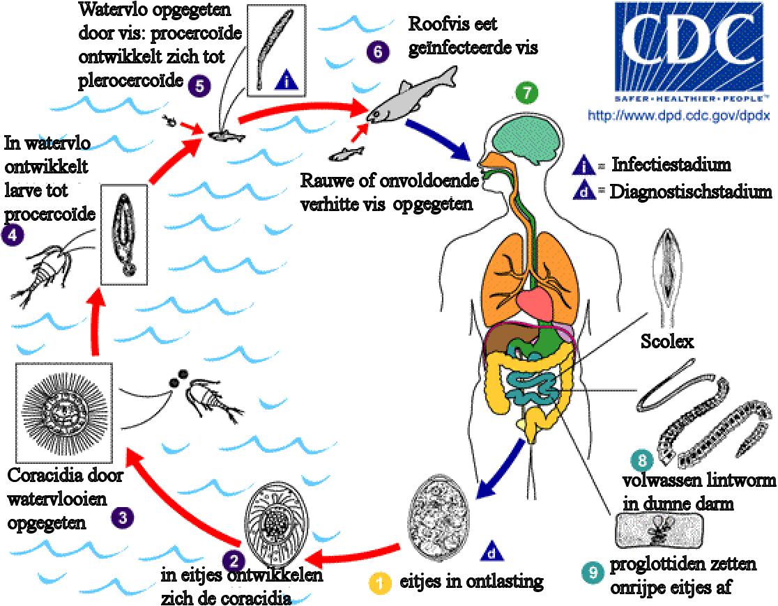 dutch text life cycle of Diphyllobothrium latum. It's from the CDC (US government), so it's not copyrighted.